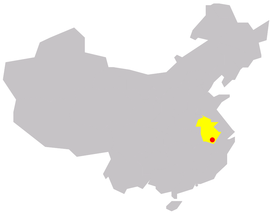 Description: position of Huangshan in China Source: own work Date: December 2005 Author: --Immanuel Giel 13:29, 15 December 2005 (UTC) Other versions: none